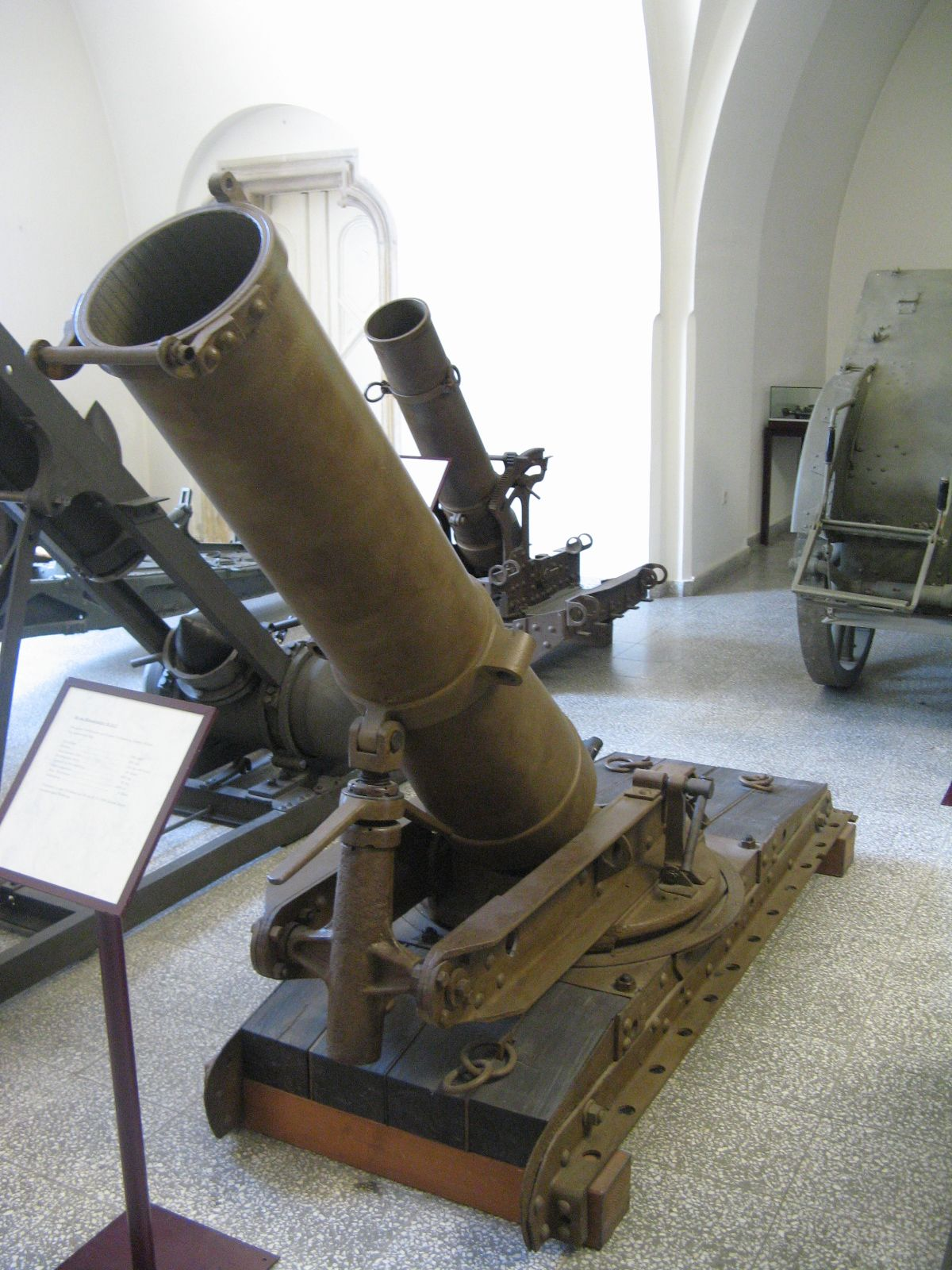 Böhler 26cm mortar M1917 located at the Heeresgeschichtliches Museum